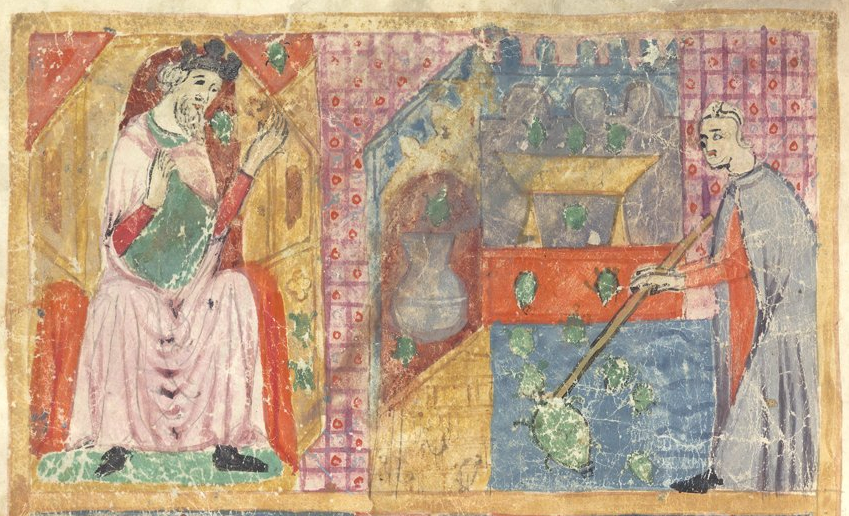 The plague of forgs. From the Haggadah for Passover (the 'Sister Haggadah').